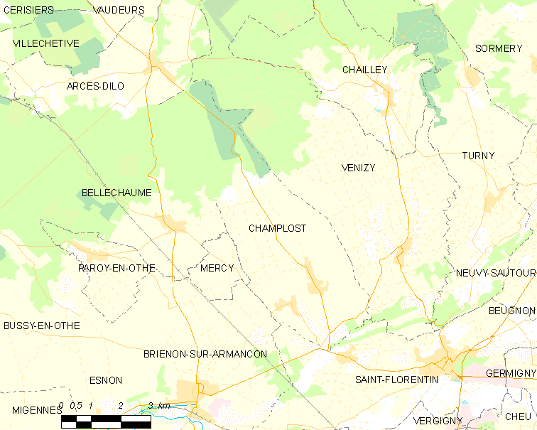 Map of French municipality Champlost